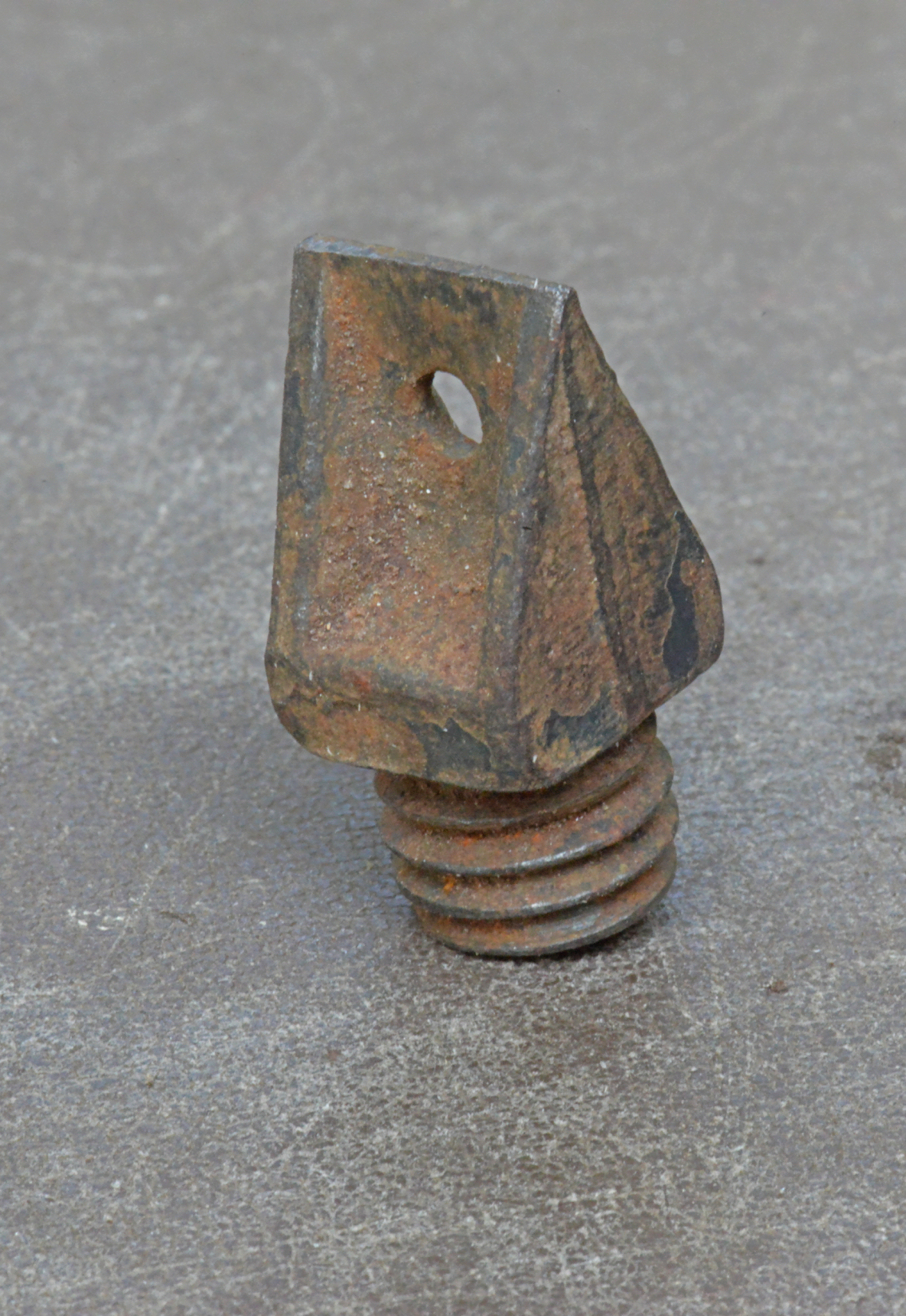 Screw for a horseshoe